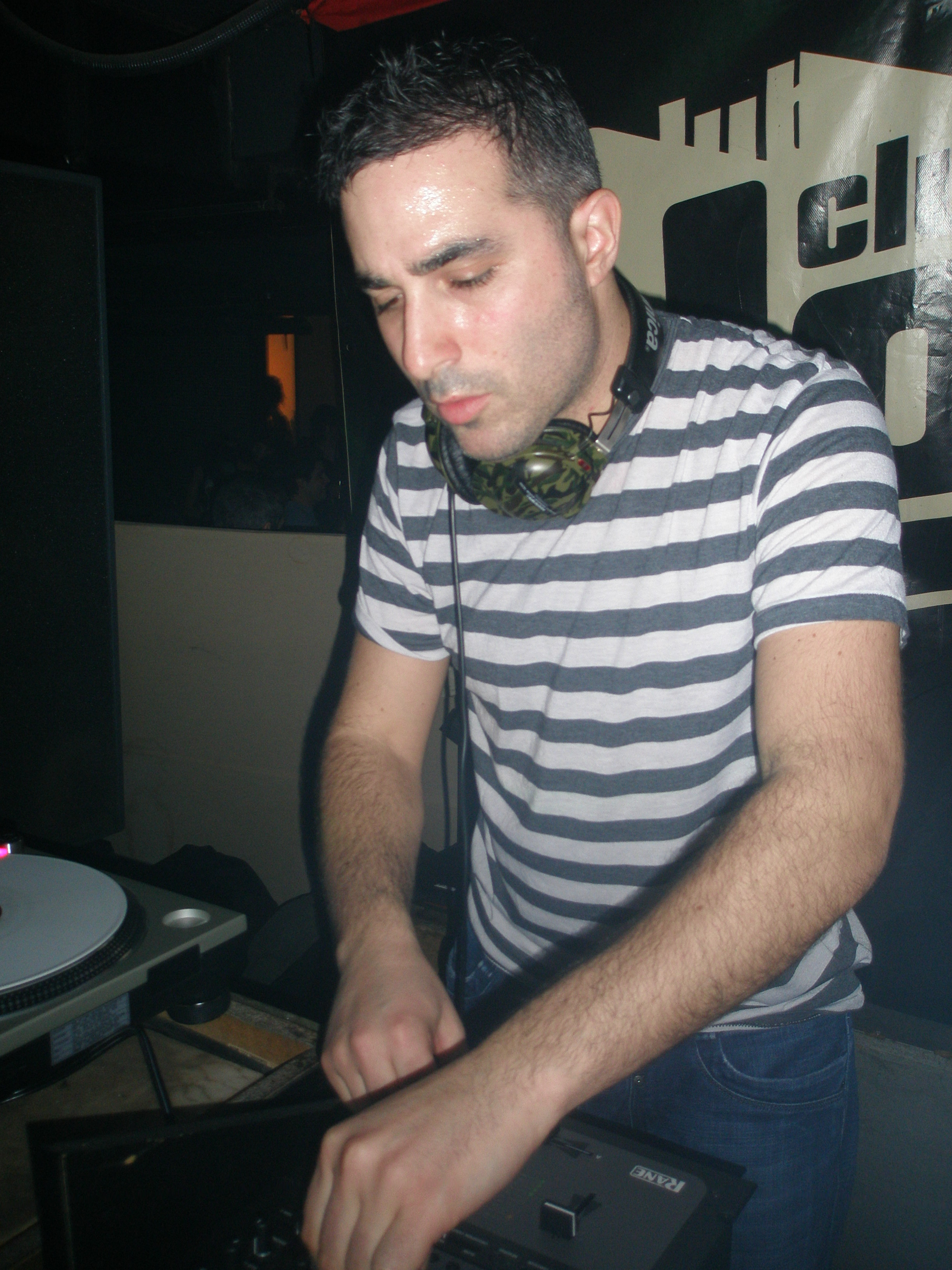 DJ Yoda (Duncan Beiny) performing at Low Club in Madrid (Spain) on February 17th, 2008.